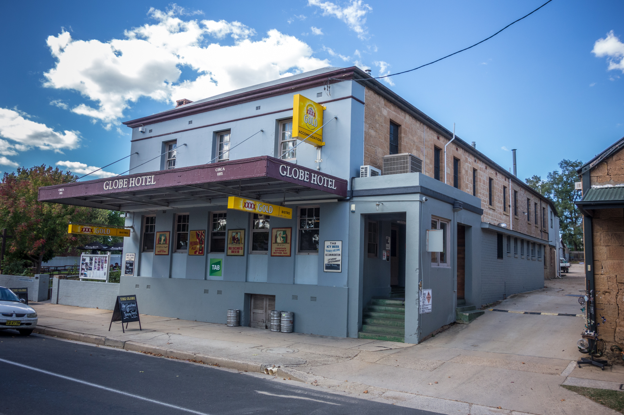 The Globe Hotel, 1880, Rylstone, NSW, Australia